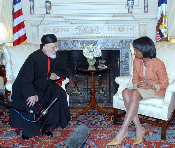 Secretary Rice meets with Maronite Patriarch of Lebanon Nasrallah Sfeir.